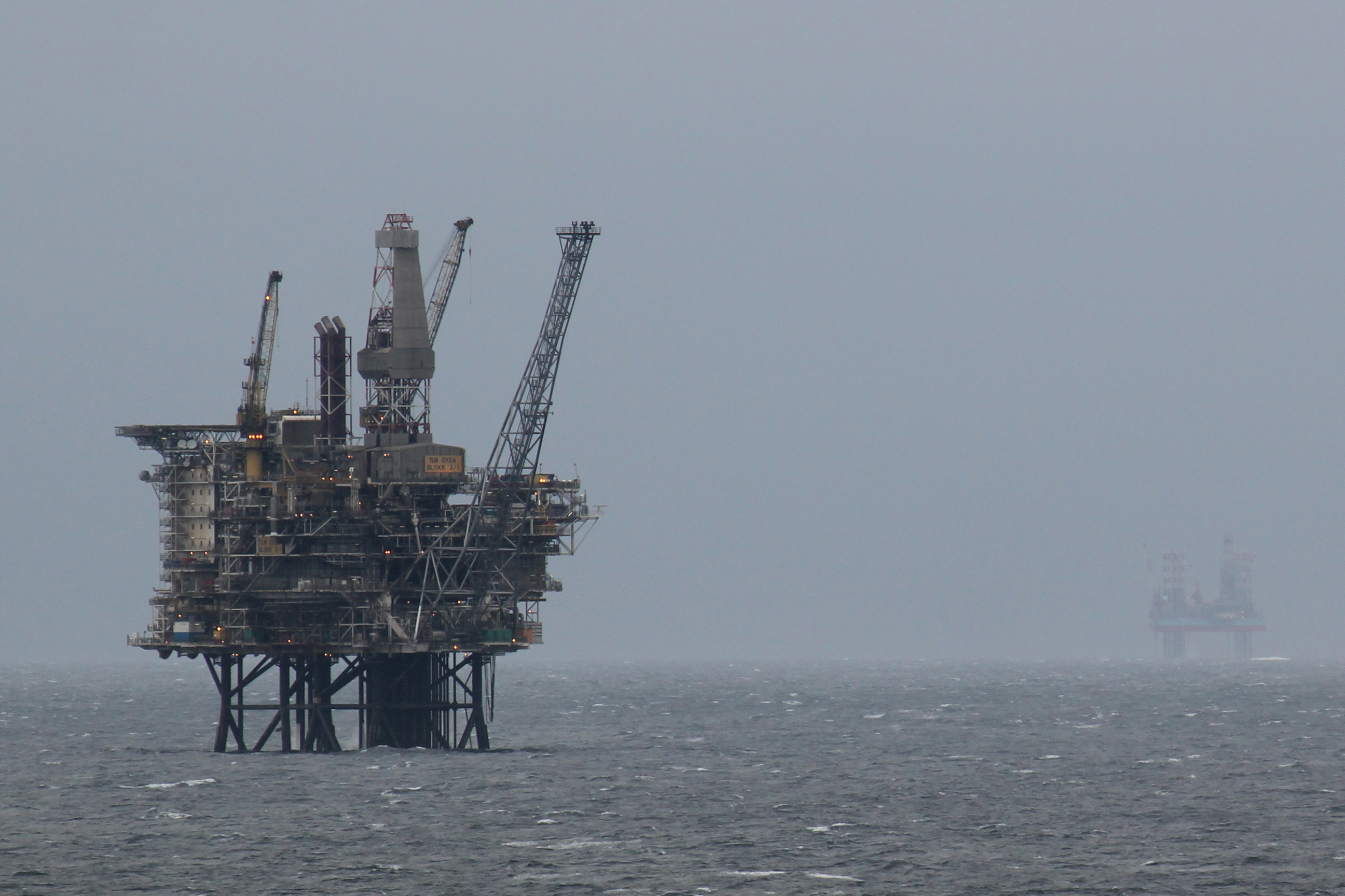 North Sea, Oil Platform TLM GYDA BLOKK 2/1